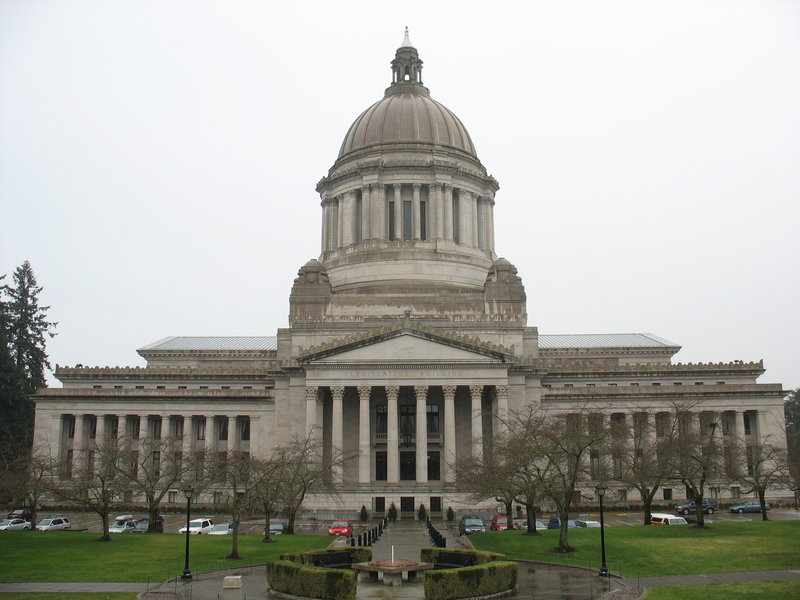 The Washington State Capitol. Taken from The Joel M Pritchard Building.